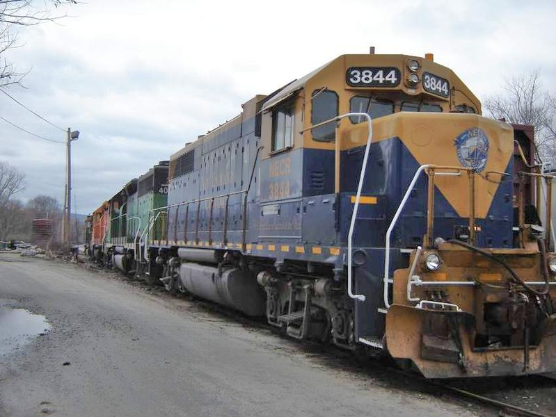 A NECR Engine sits in Palmer.